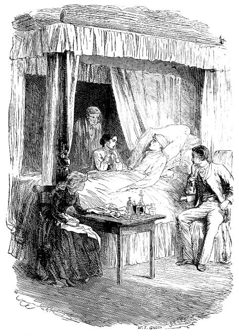 Marcus Stone's illustration for Book 4, "A Turning," Chapter 10, "The Doll's dressmaker Discovers A Word" '